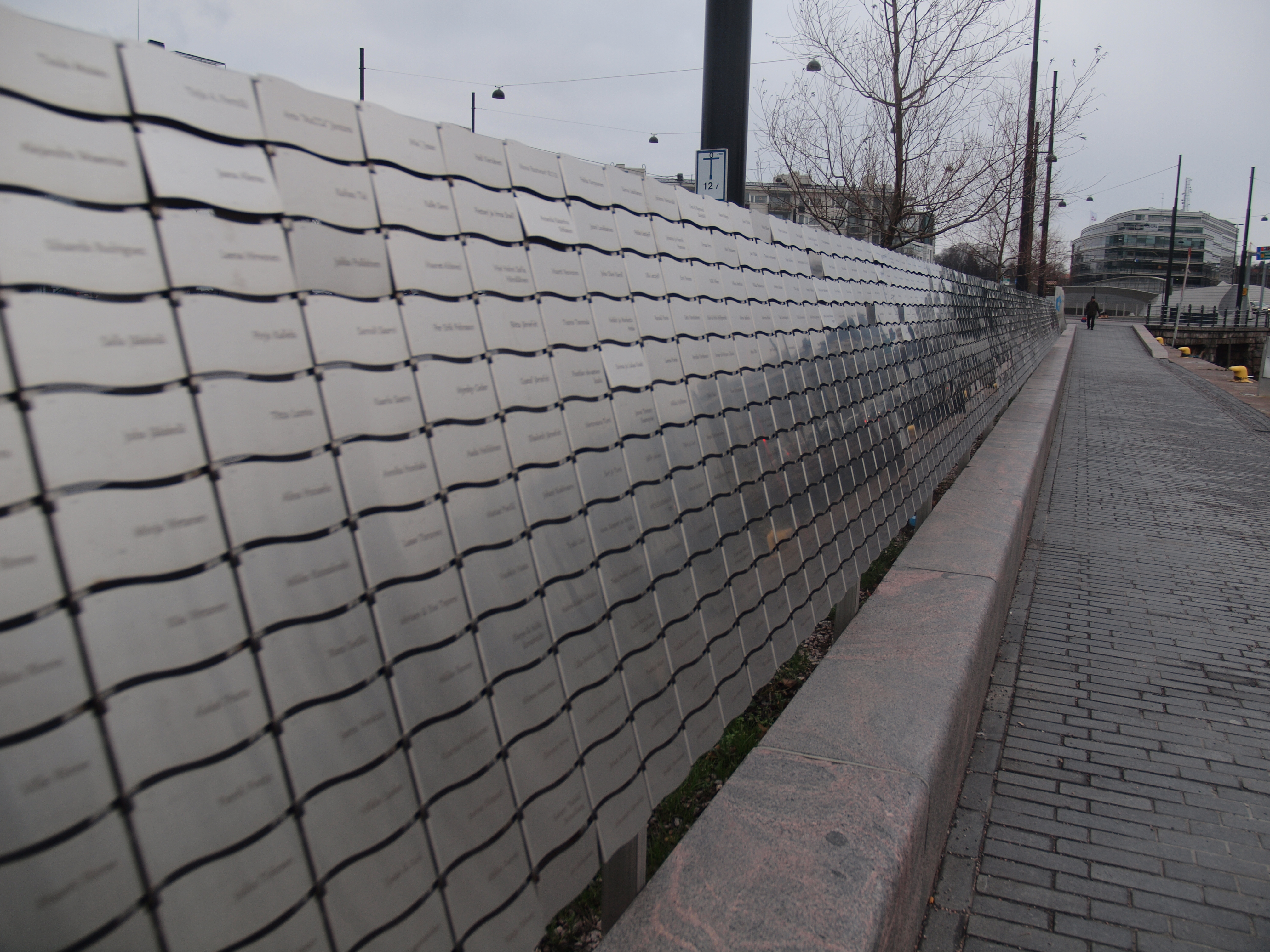 Part of the artwork "Horisontti" ("the horizon") in Jätkäsaari, southern Helsinki, Uusimaa, Finland. The artwork consists of hundreds of tiny steel plaques, each inscribed with the name of a donor to the "Keep the Baltic Sea clean" campaign.